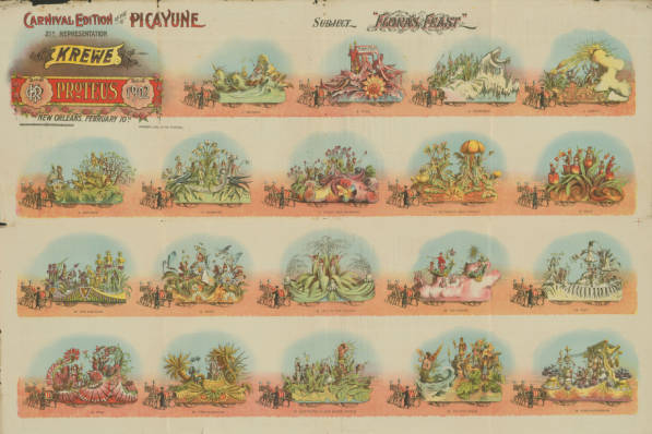 Krewe of Proteus Mardi Gras Parade, New Orleans, for 1902. Theme: Flora's Feast. Rotogravure illustration.